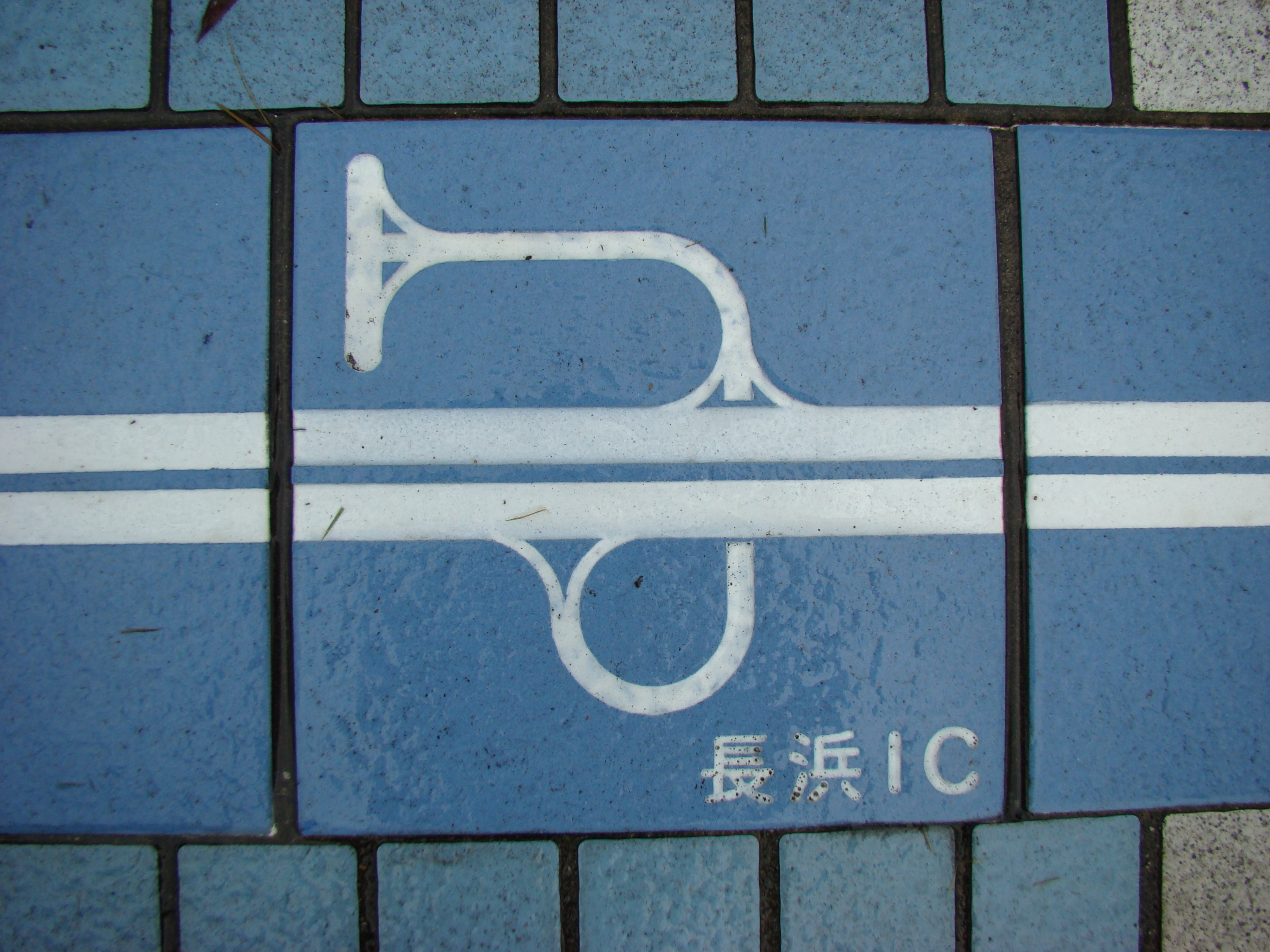 The tile which designed a shape of the Nagahama Interchange（Hokuriku Expressway）（There is this tile in Hokuriku Expressway Nadachi-Tanihama Service Area.）. Place - Chayagahara,Joetsu City,Niigata Prefecture,Japan Date - August 9, 2009 Format - JPEG, 3264x2448pixel, 24bit colors. Photographer - NALA Wiki (talk)